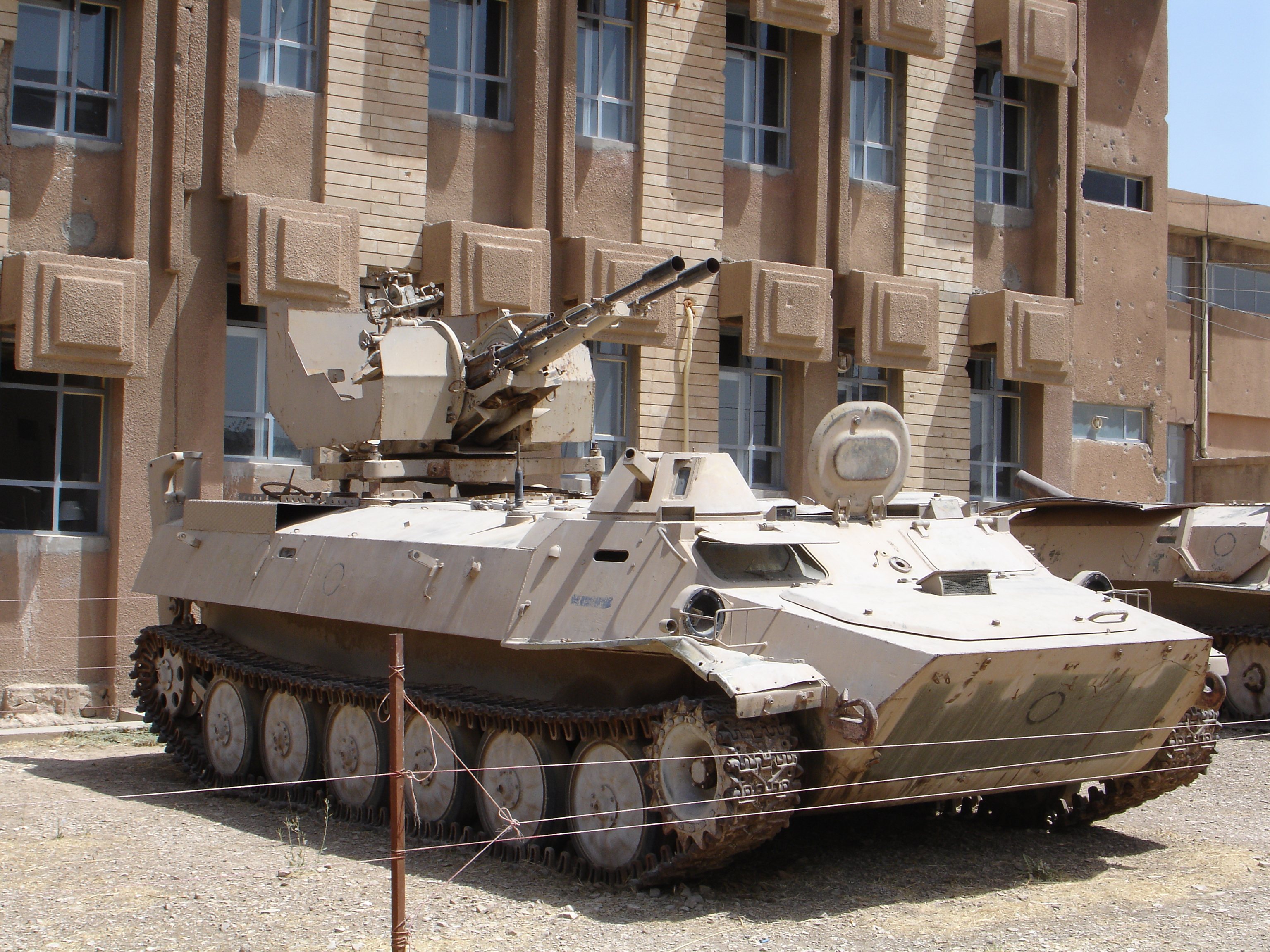 Amna Sur Museum in Sulaymaniyah. Former Iraqi army MTLB with mounted ZU-23-2. This Picture was taken in Kurdistan.